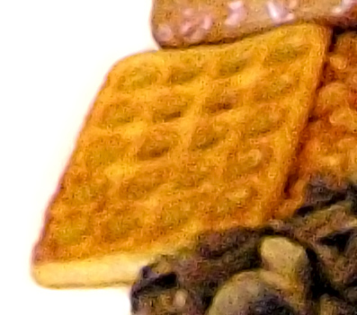 Potato waffle (close-up from image of an English Breakfast)